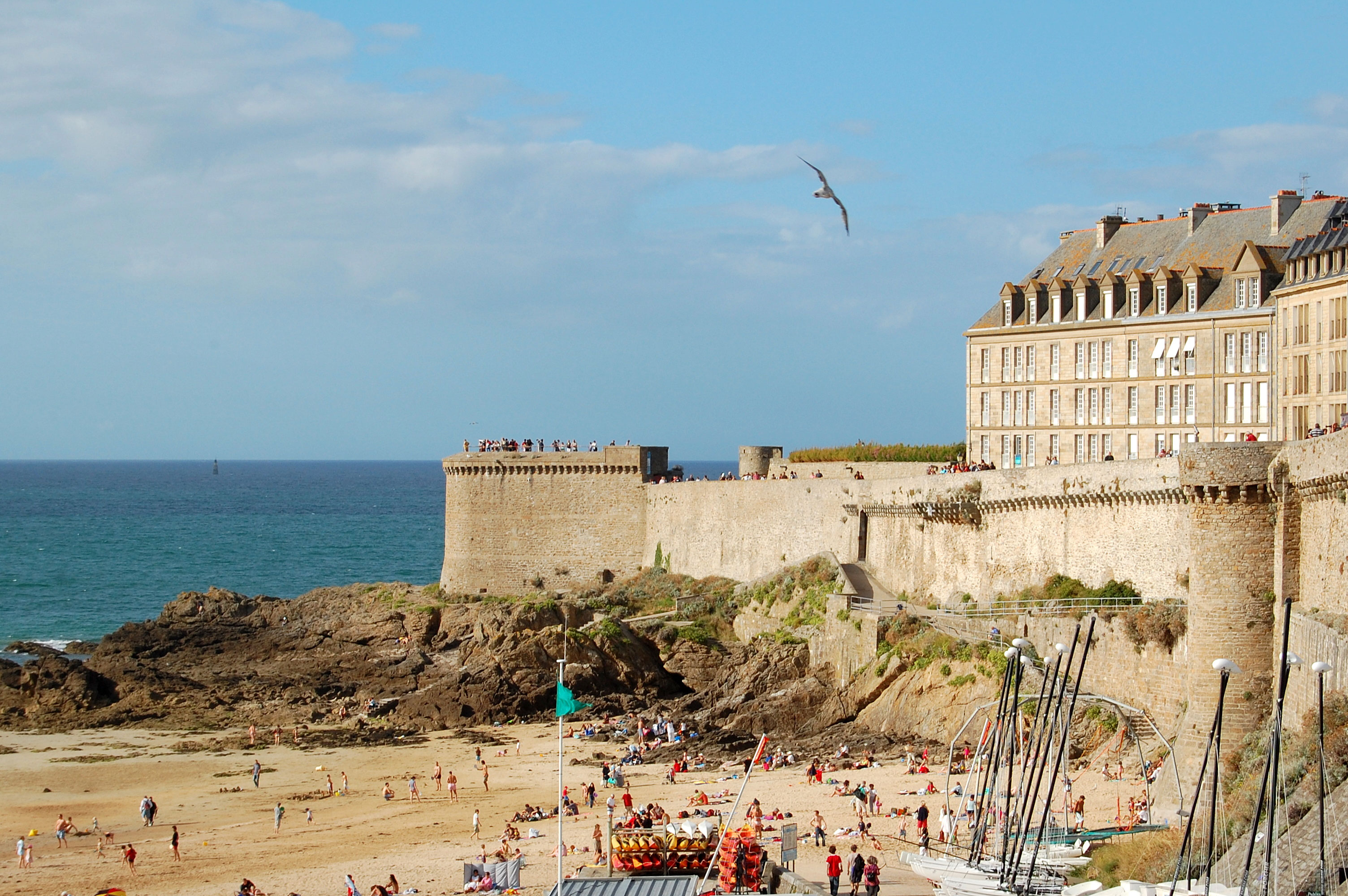 Wall of Saint Malo seaside (Brittany, France)